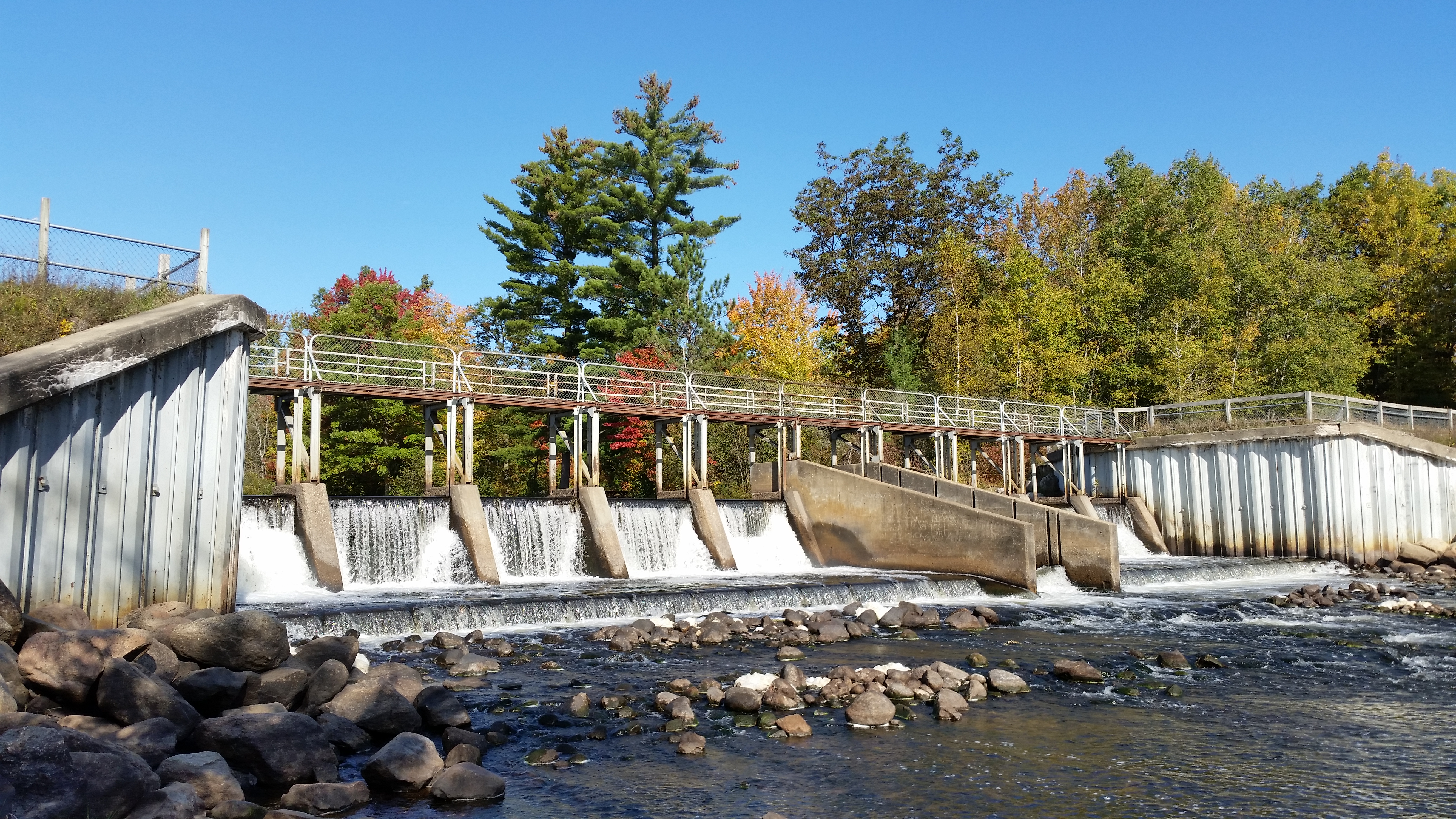 Reedsburg Dam